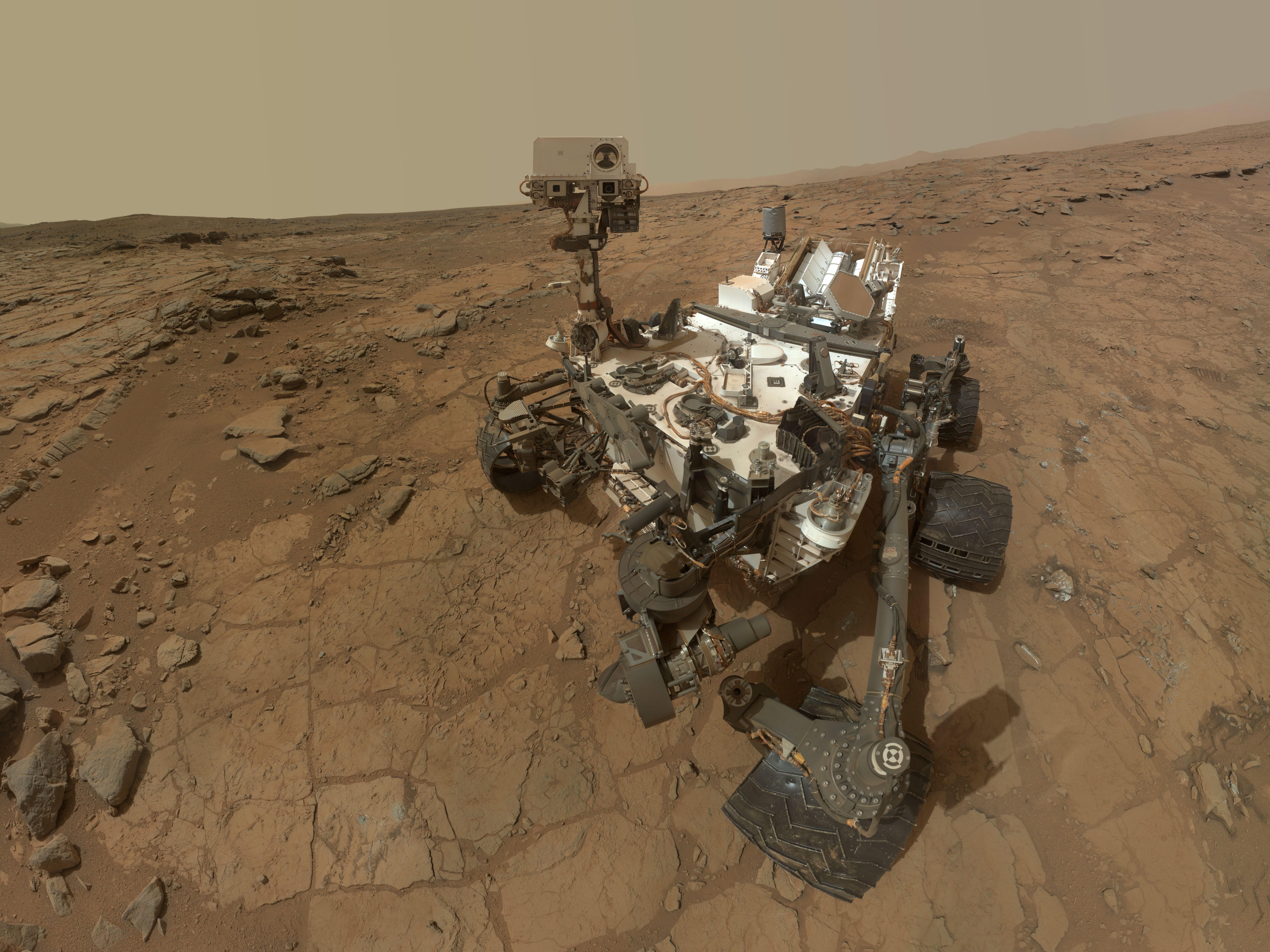 This rectangular version of a self-portrait of NASA's Mars rover Curiosity combines dozens of exposures taken by the rover's Mars Hand Lens Imager (MAHLI) during the 177th Martian day, or sol, of Curiosity's work on Mars (Feb. 3, 2013). The rover is positioned at a patch of flat outcrop called "John Klein," which was selected as the site for the first rock-drilling activities by Curiosity. The self-portrait was acquired to document the drilling site. The rover's robotic arm is not visible in the mosaic. MAHLI, which took the component images for this mosaic, is mounted on a turret at the end of the arm. Wrist motions and turret rotations on the arm allowed MAHLI to acquire the mosaic's component images. The arm was positioned out of the shot in the images or portions of images used in the mosaic.